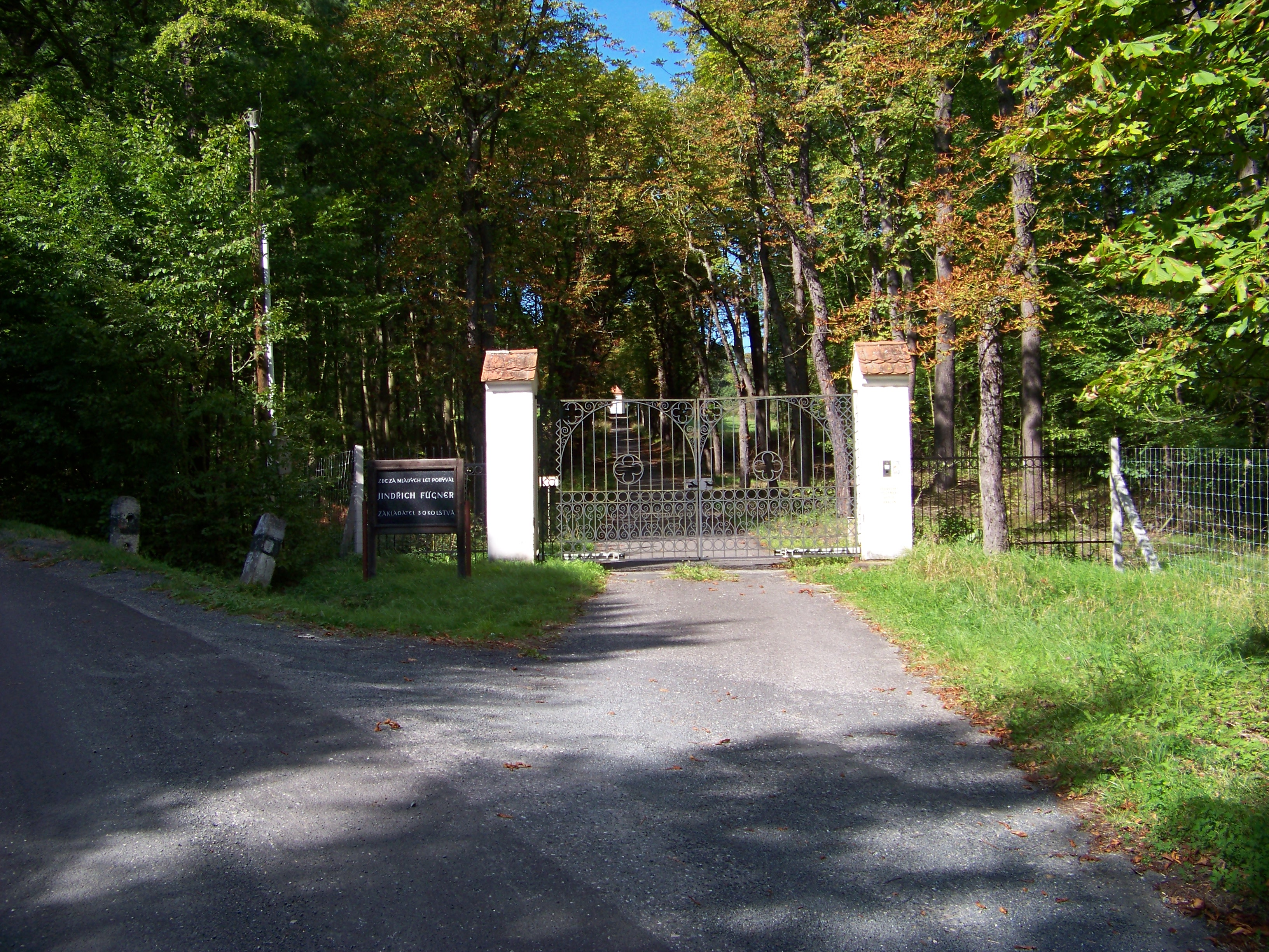 Sýkořice, Rakovník District, Central Bohemian Region, Czech Republic. Dřevíč castle, a gate. - OpenStreetMap (Info)